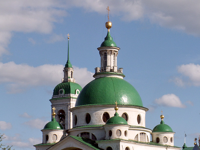 Spaso-Jakovlevskij Monastery